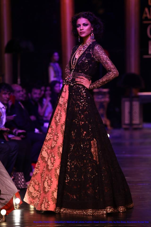 Noyonika Chatterji in SabyaSachi Mukherji at Lakme Fashion Week's Grand Finale, by Sou Boyy, Sourendra Kumar Das.